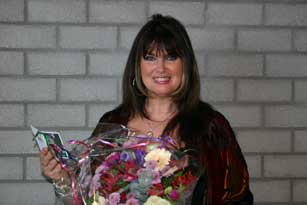 Caroline Munro in Holland, 2005. Photo by Dutch WP User Moviefan. [1]